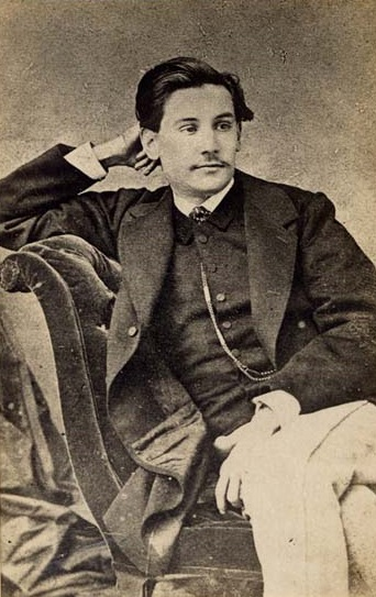 Benito Pérez Galdós